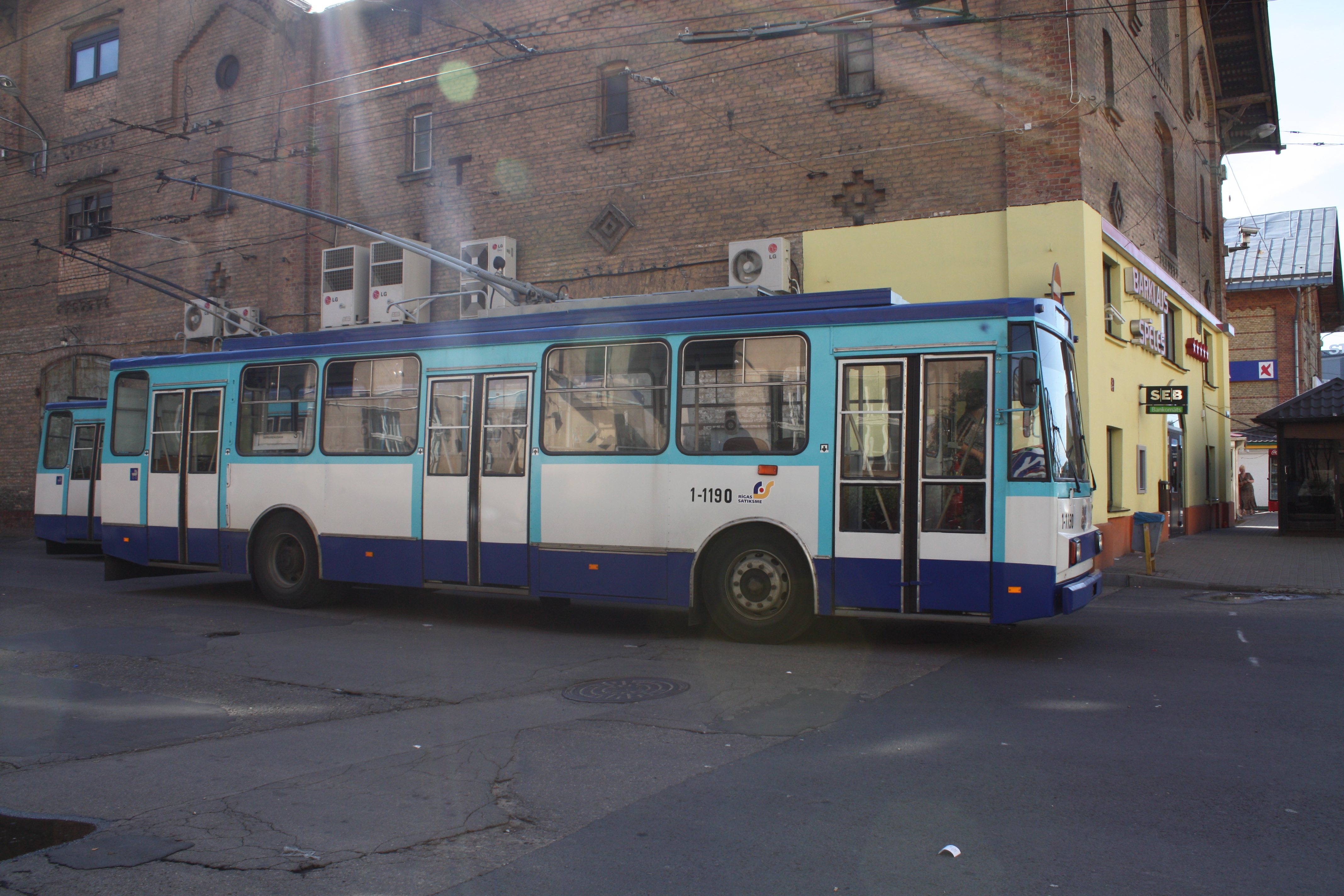 Trolleybus in Riga, Latvia